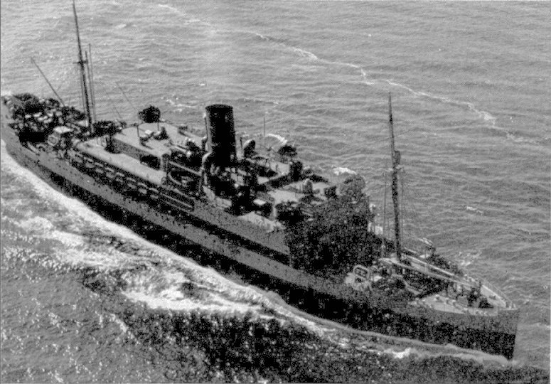 USS Merak (AF-21) underway, 23 June 1943, location unknown. US Navy photo.